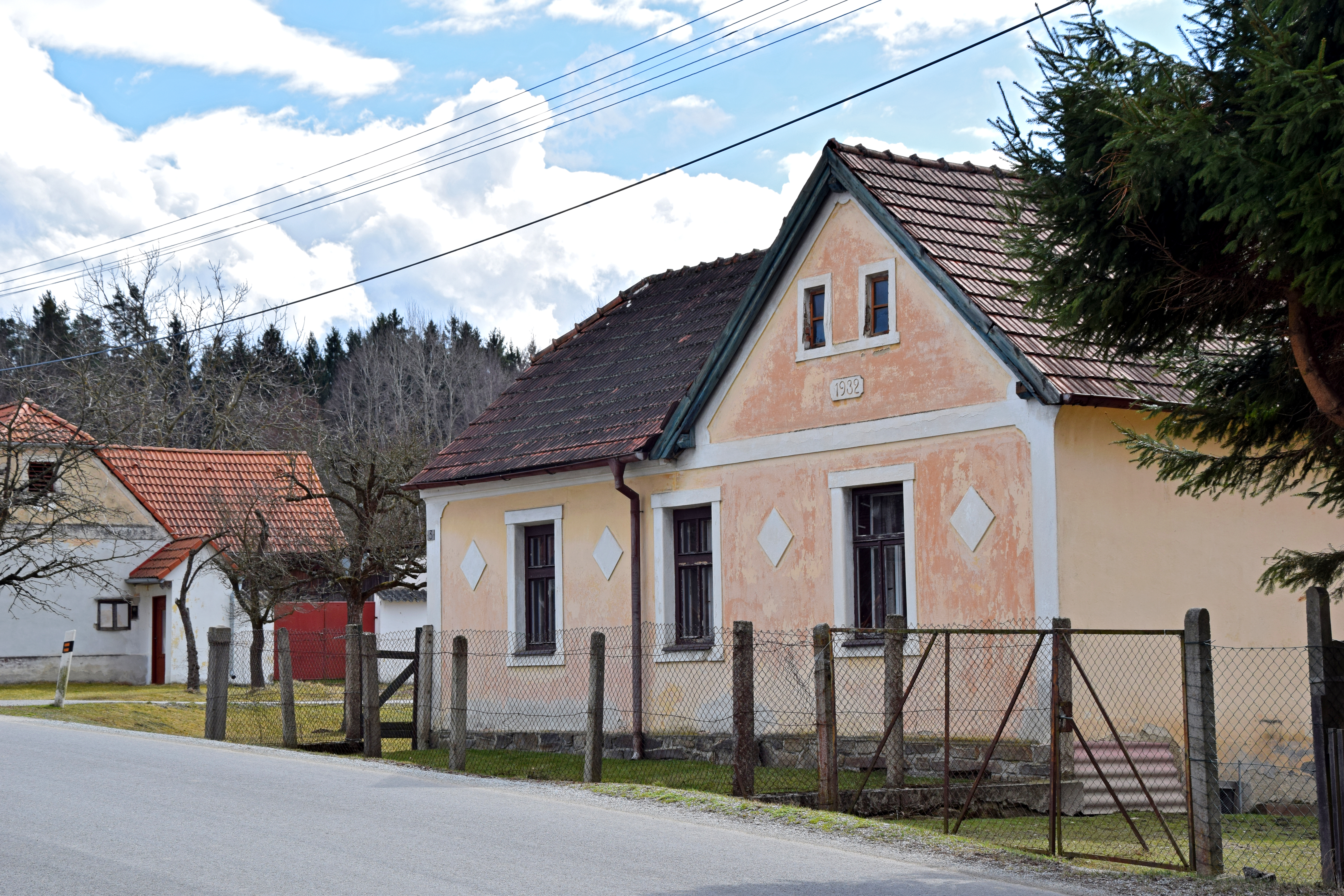 Mokrý Lom, České Budějovice district, the Czech Republic.